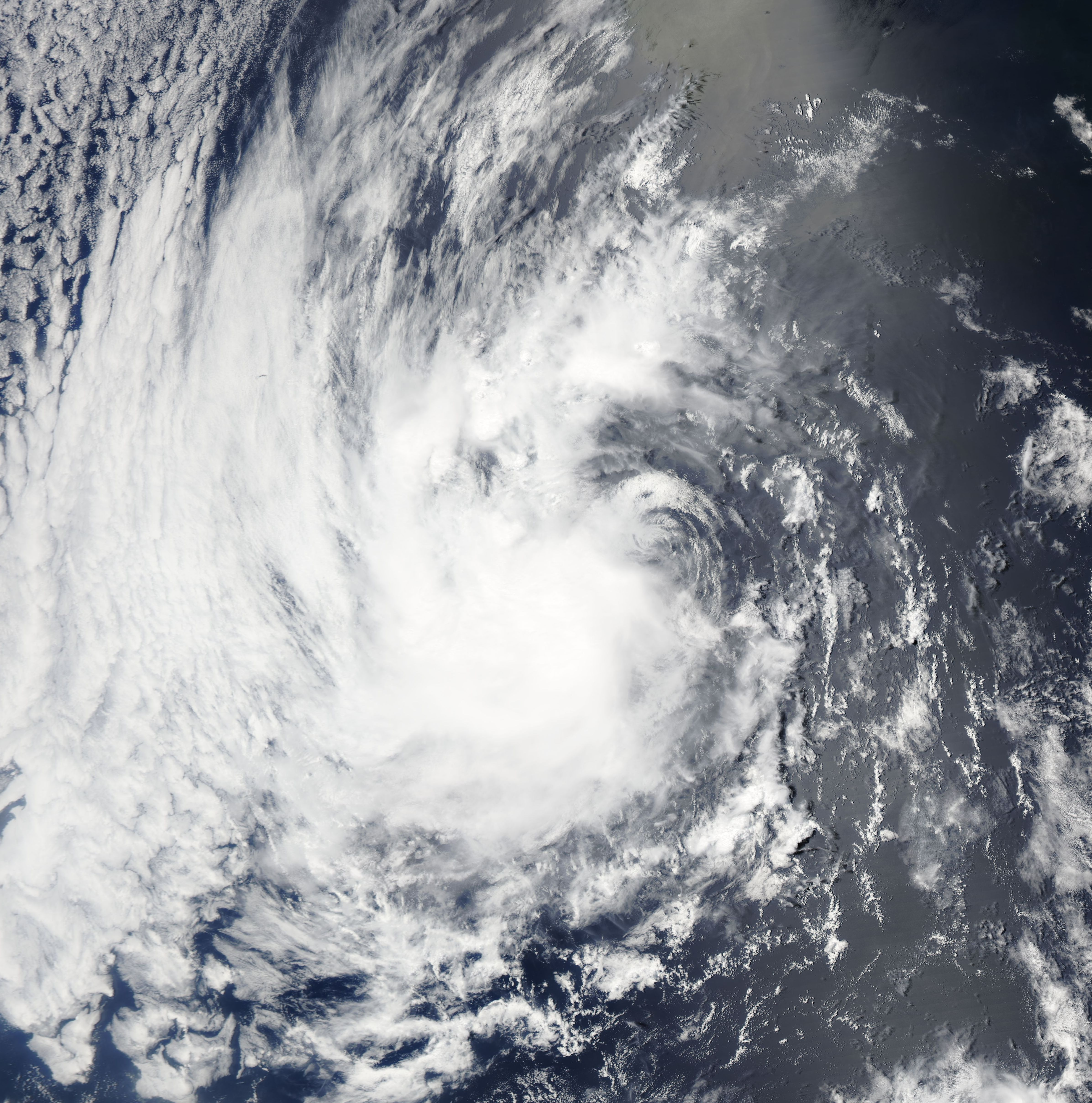 Tropical Depression Three-E of 2007, seen from MODIS on NASA's Aqua satellite at 2036Z June 11.